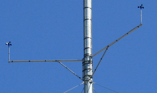 Anemometers on mast near Brockeridge Common. One of the four pairs of anemometers up the mast.1318255 Possible indicative siting of a wind farm as the mast looks extremly similar to this